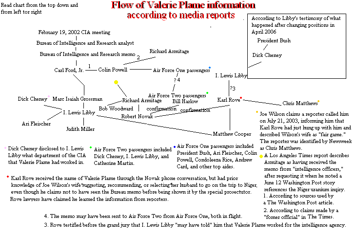 This is a flow chart or web of information relating to the Valerie Plame leak, according to compiled media reports. All information in the chart can be found sourced in this Wikinews article.